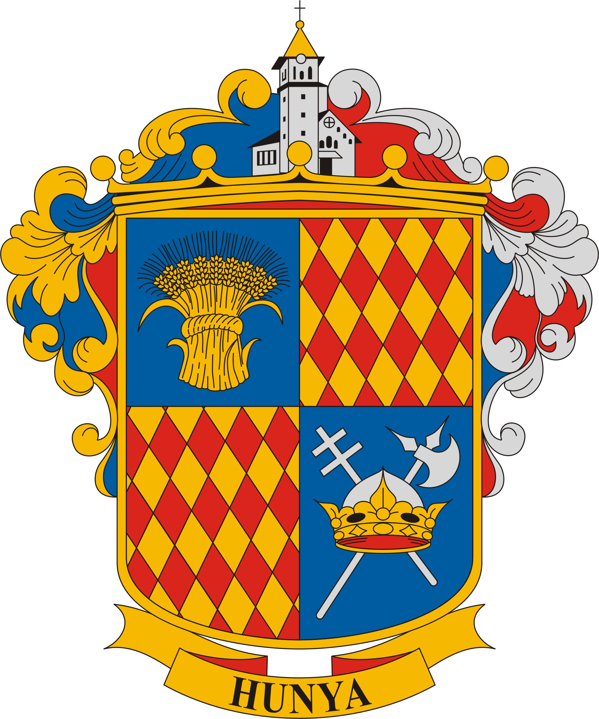 Coat of arms of Hunya, Hungary